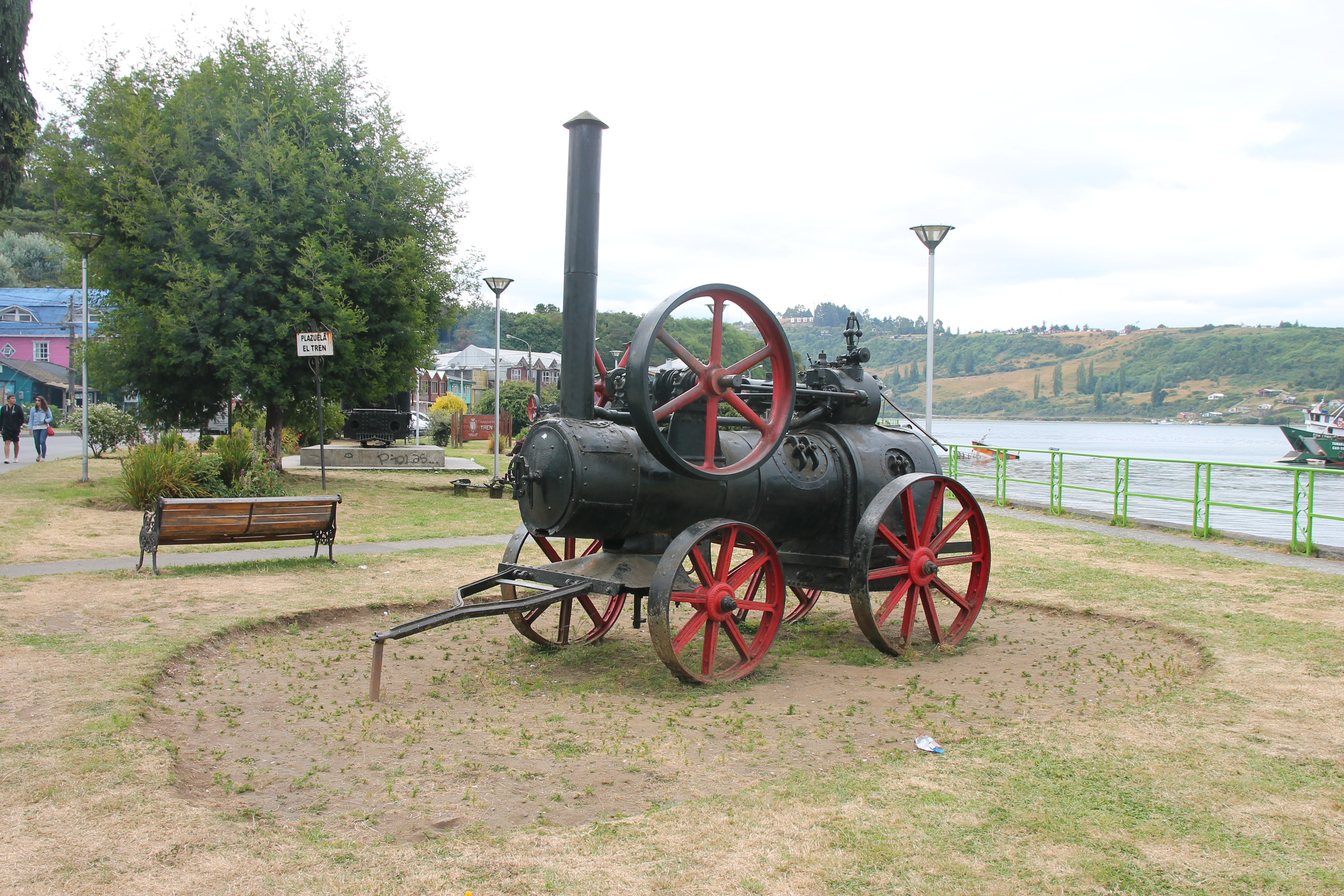 A portable engine in Tren (Train) square in Castro, Chiloé